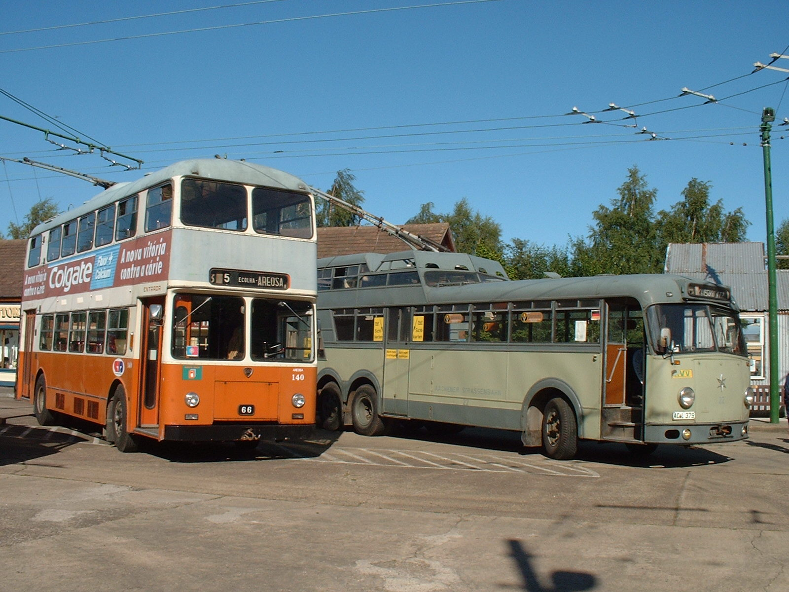 Two trolleybuses at The Trolleybus Museum at Sandtoft. On the left is No. 140 from Porto, Portugal, a 1967 Lancia. On the right is a No. 22 from Aachen, Germany, a one-and-a-half-decker built by Henschel.